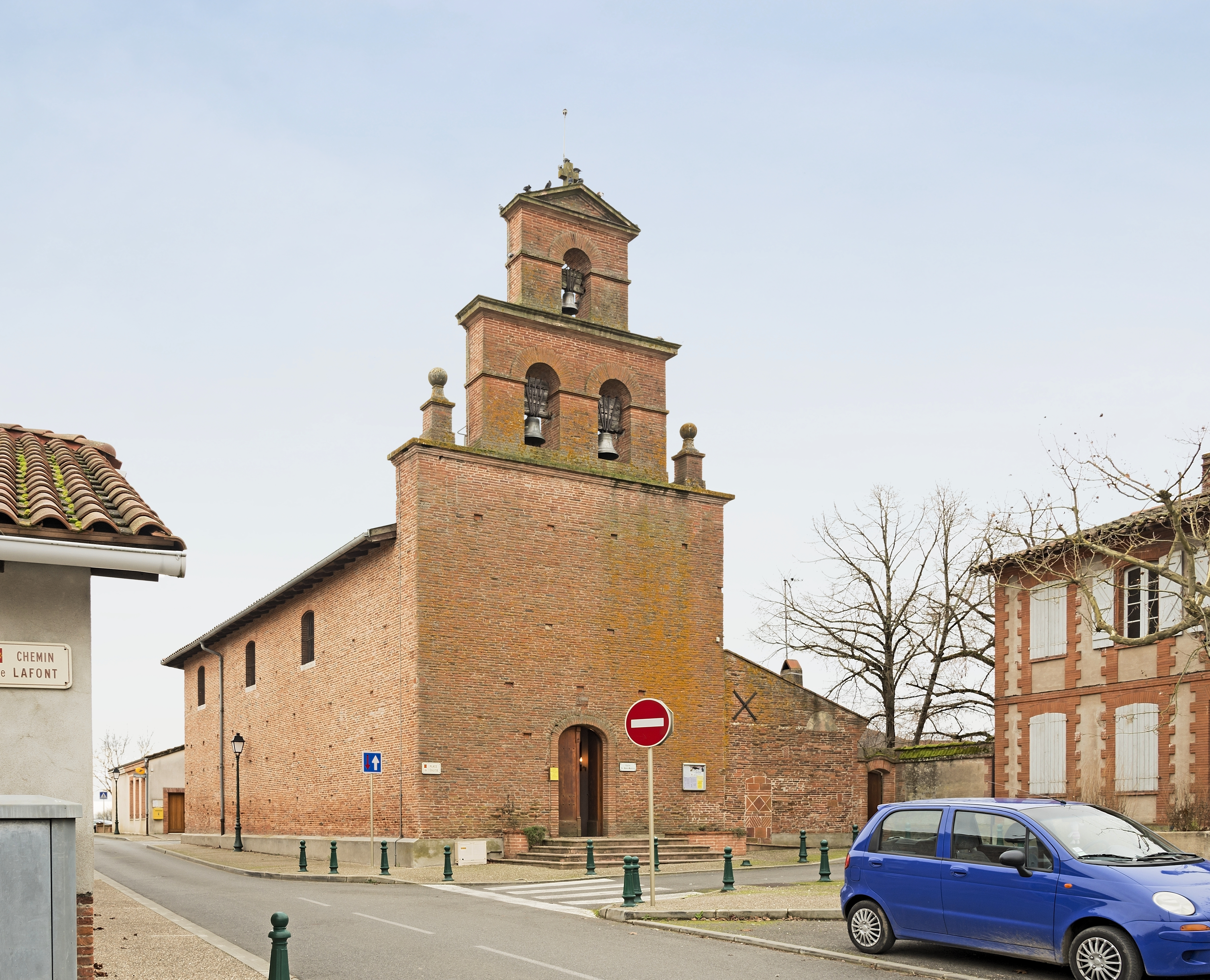 La Magdelaine-sur-Tarn, the Church Sainte-Marie.